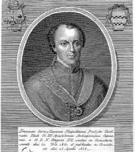 Kardinal Francesco Serra (1783-1850), Apostolischer Nuntius in Bayern